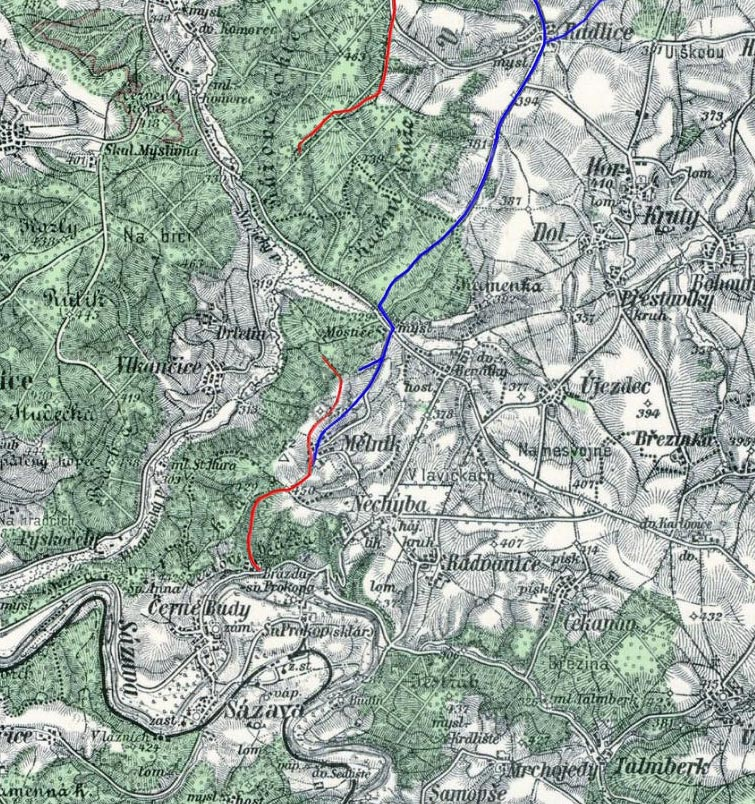 First part of "Devils furrow" on the old military map (IIInd Military Survey 1877-80)